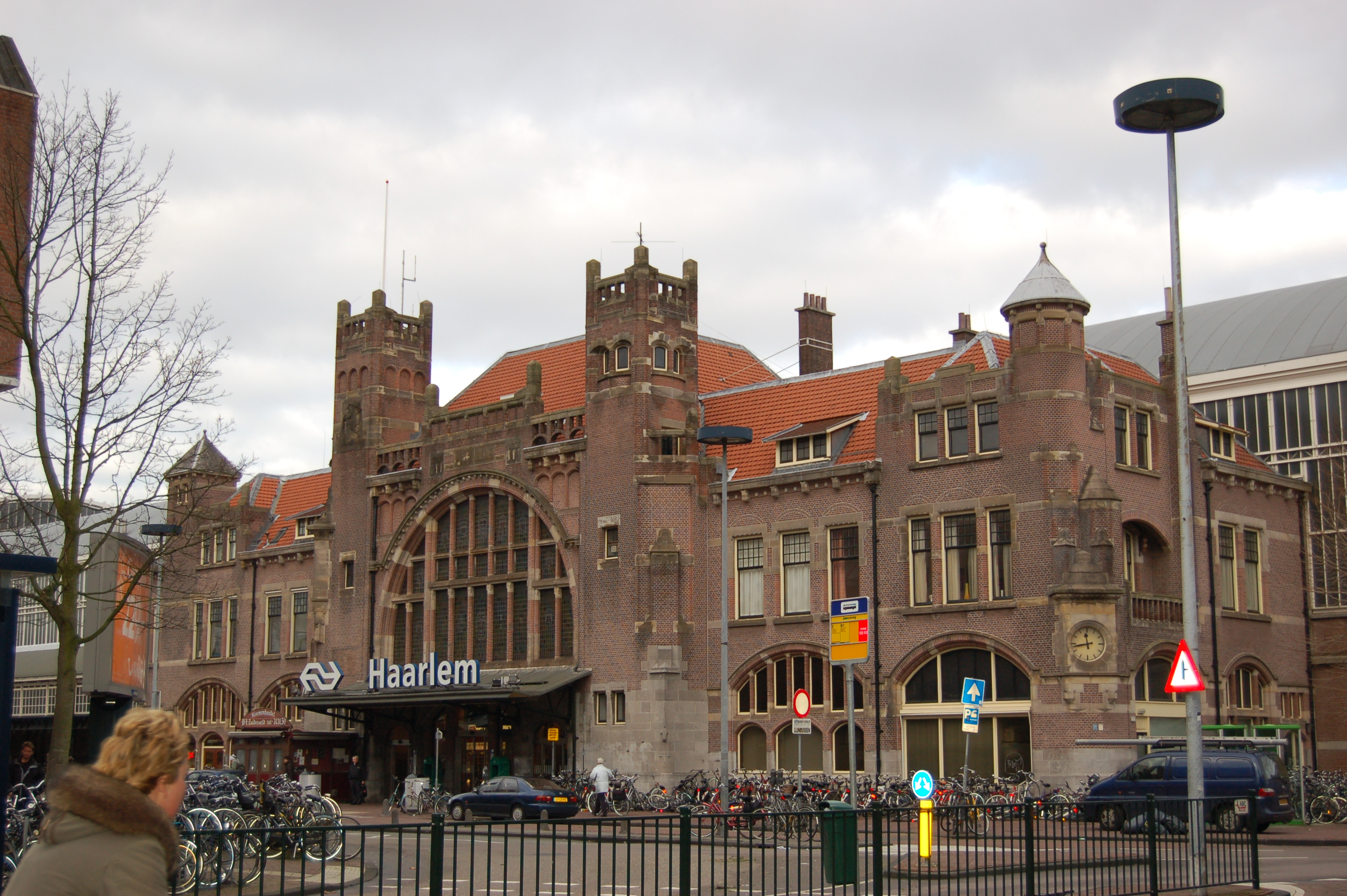 Main entrance of train station Haarlem, the Netherlands: (D.A.N. Margadant, 1906).